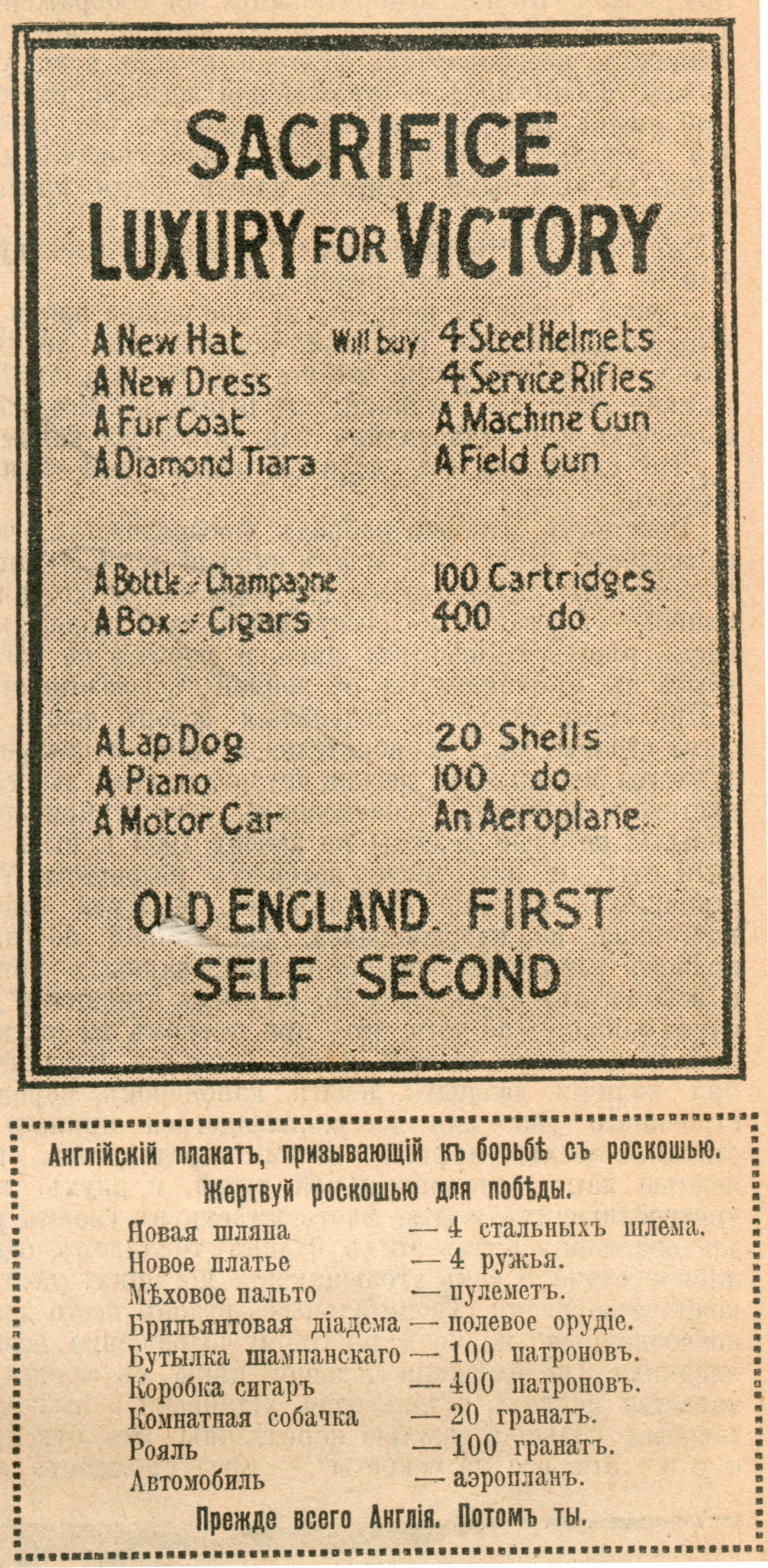 English war poster 1915